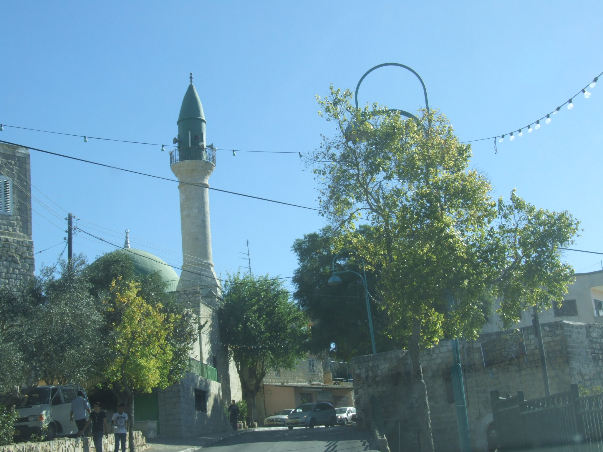 Ma'alot, Religion in Israel